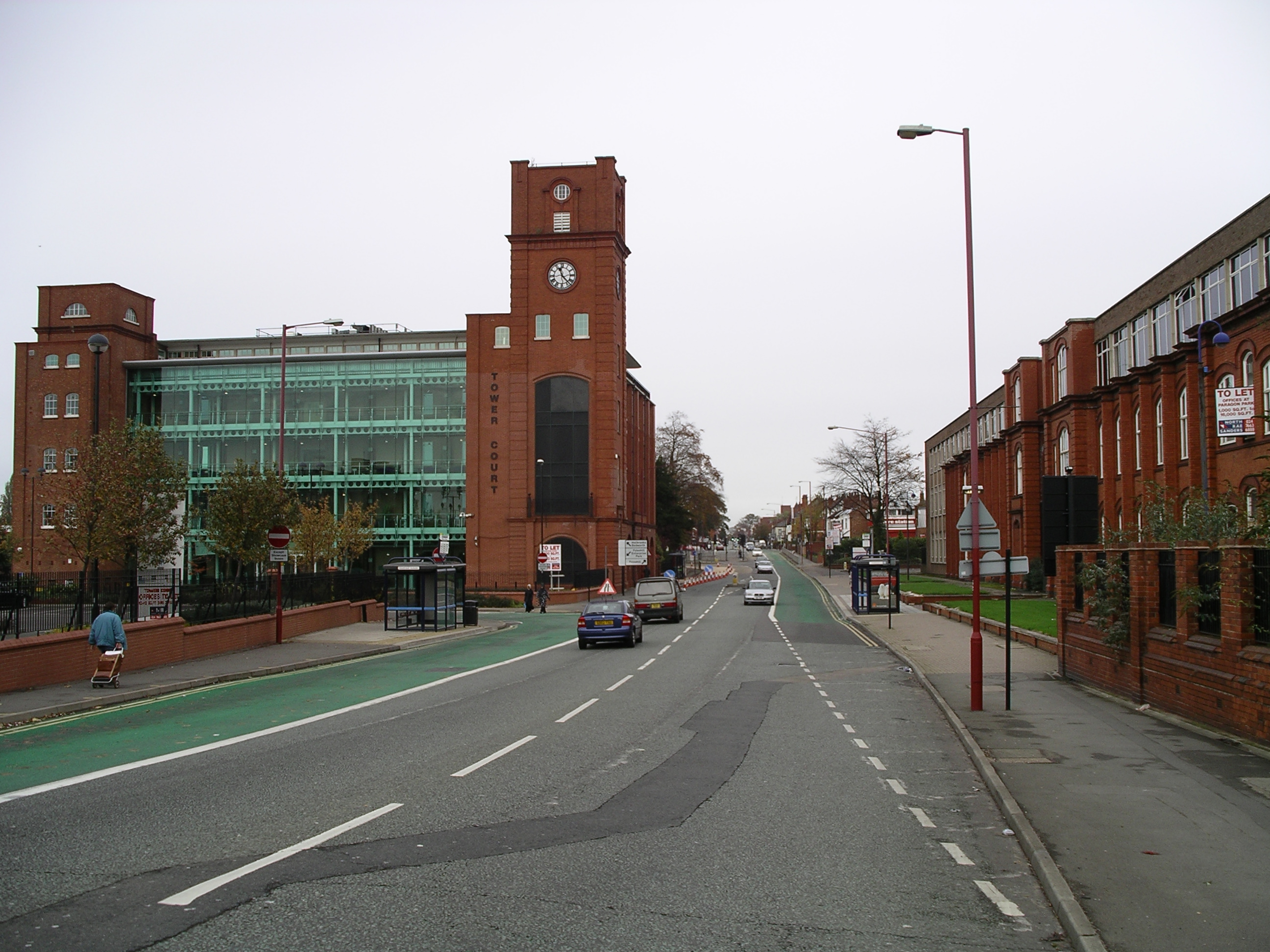 Photograph of Tower Court, Foleshill, Coventry, England.